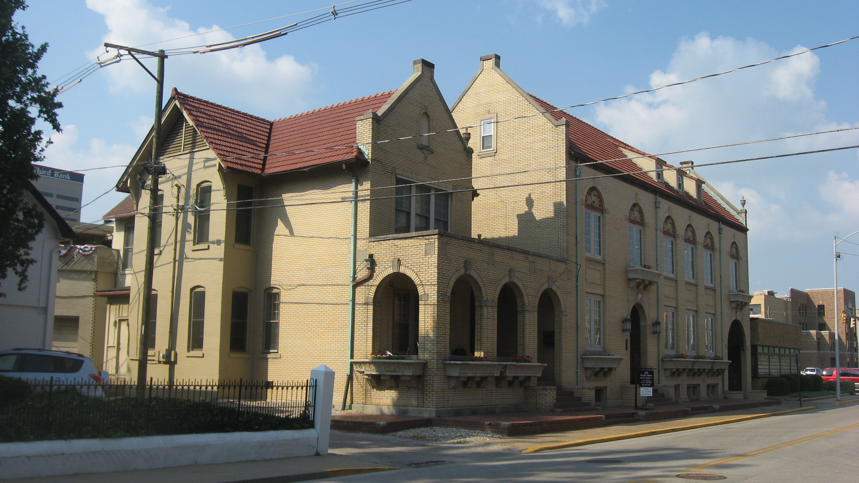 Front of the Robert Smith Mortuary, located at 118-120 Walnut Street in Evansville, Indiana, United States. Built in 1930, it is listed on the National Register of Historic Places.